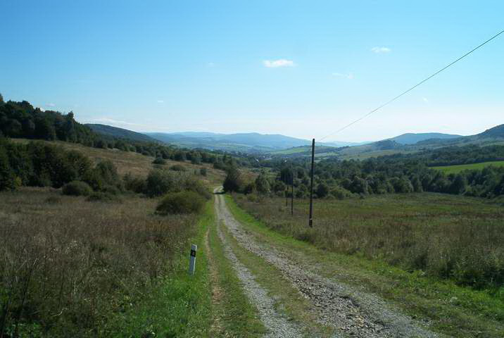 view southwards from Beskid over Czeremcha pass (pol. przelęcz Beskid nad Czeremcha, słow. Čertižské sedlo), 581 m n.p.m., Slovak side on the 559 road to Čertižné